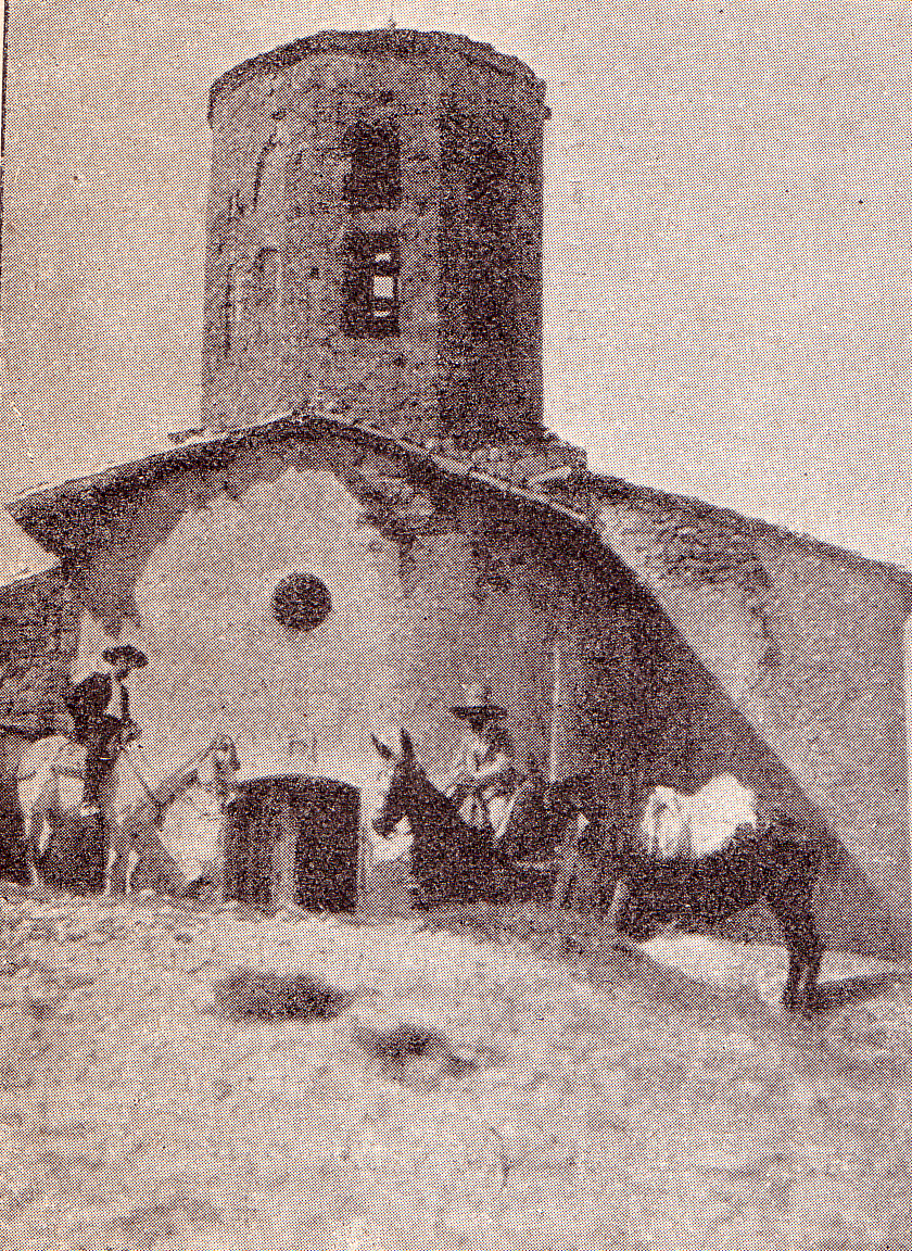 The settlement of Hortoneda, in Conca de Dalt, in 1912.